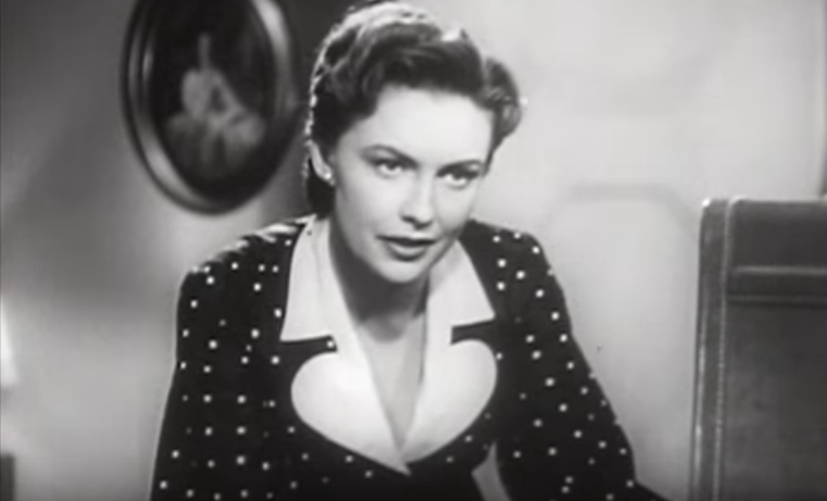 Joan Leslie in Born to Be Bad trailer (1950)